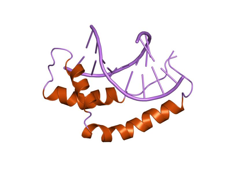 Cartoon representation of the molecular structure of protein registered with 1hry code.